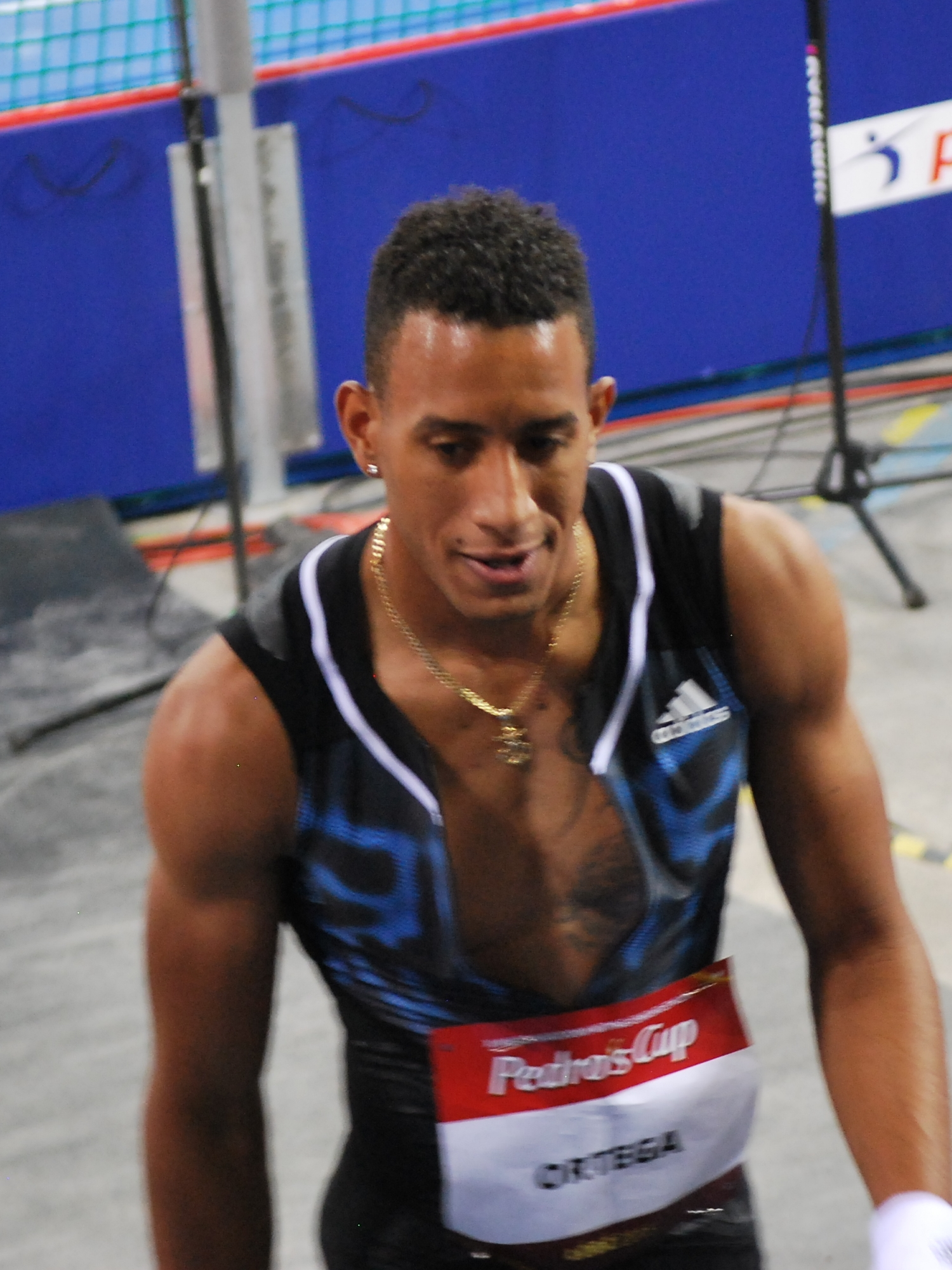 Pedros Cup 2015 Łódź, Orlando Ortega, hurdler from Cuba